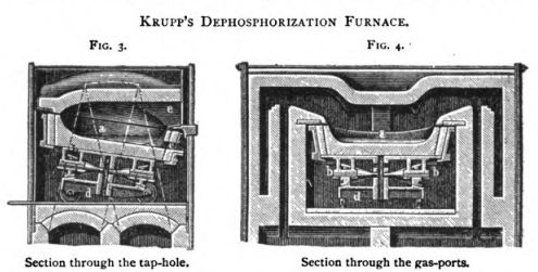 Liquid pig iron dephosphorization furnace (Bell-Krupp process), invented in 1877. This process was outclassed by the basic Bessemer process.